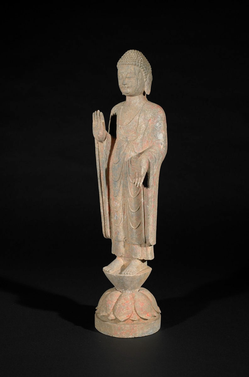 Limestone statue of Buddha from the Northern Qi dynasty of China.